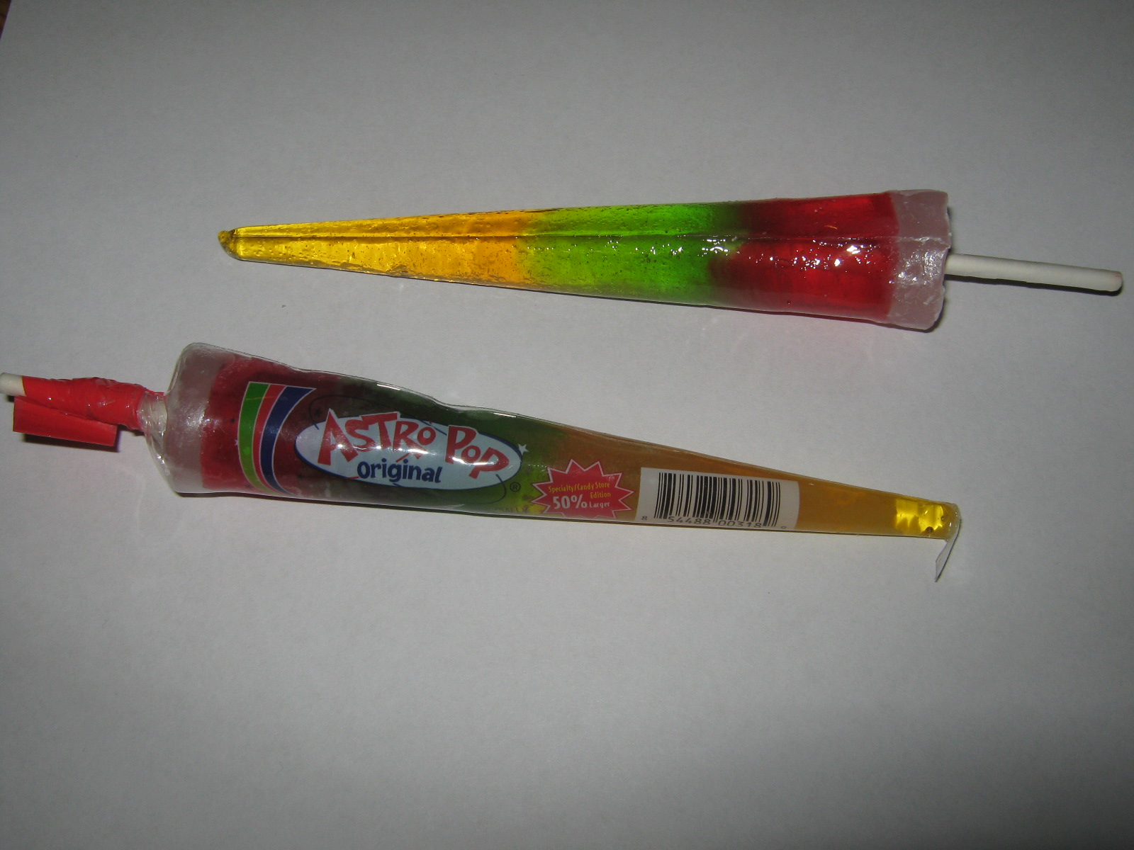 Wrapped and unwrapped Astro Pop lollipop candy.